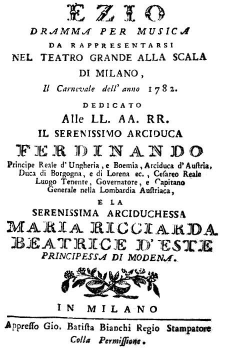 Felice Alessandri - Ezio - titlepage of the libretto - Milan 1782